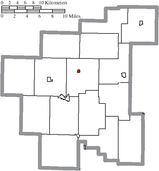 Map of the municipal and township boundaries of Noble County, Ohio, United States, as of the 2000 census, with the location of the village of Sarahsville highlighted. Township borders are shown only in unincorporated areas in order to differentiate incorporated and unincorporated areas more clearly.